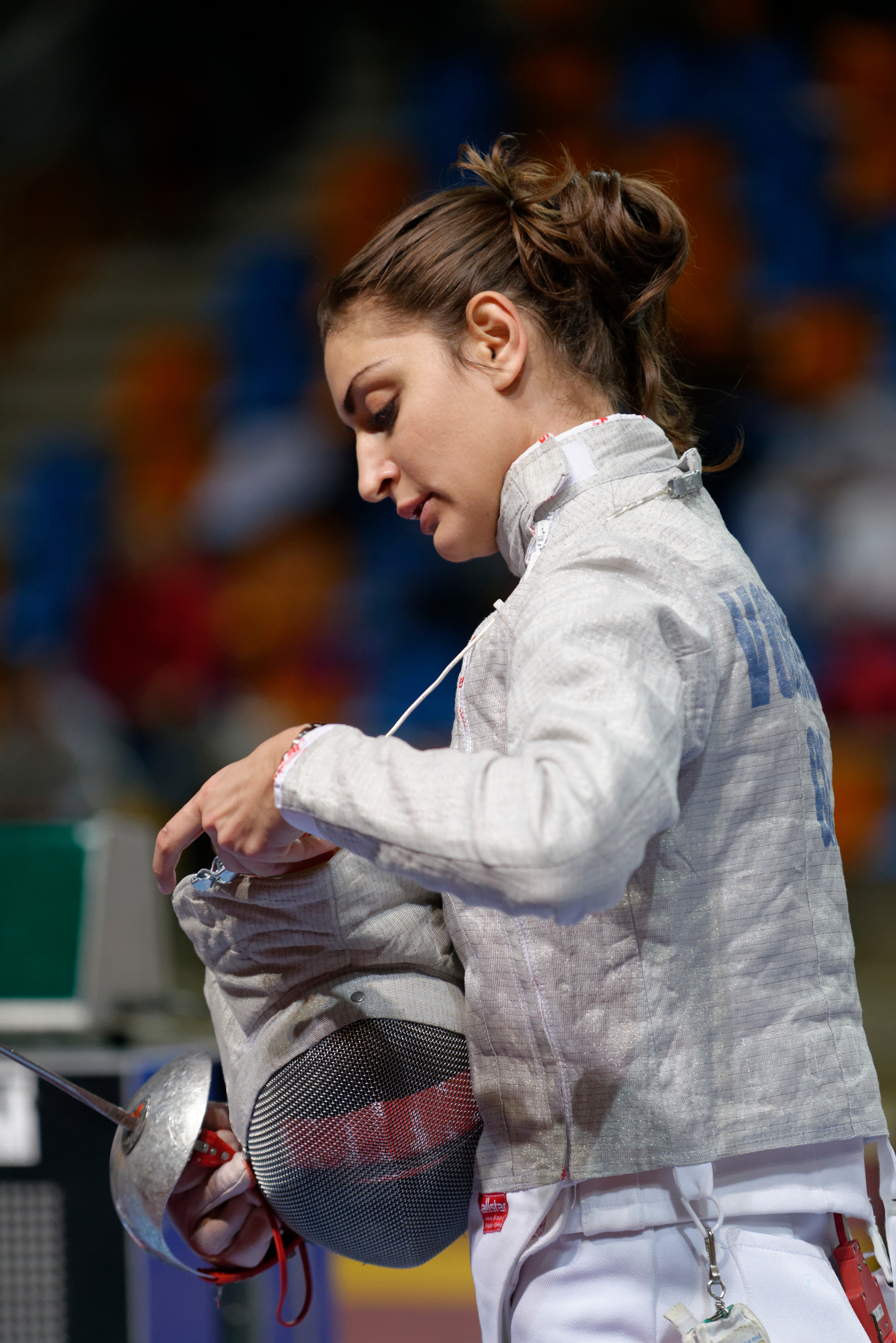 Greece's Vassiliki Vougiouka during her T16 bout against Poland's Małgorzata Kozaczuk at the Trophée BNP Paribas-Grand Prix FIE, first stage of the women's sabre World Cup, in Orléans.